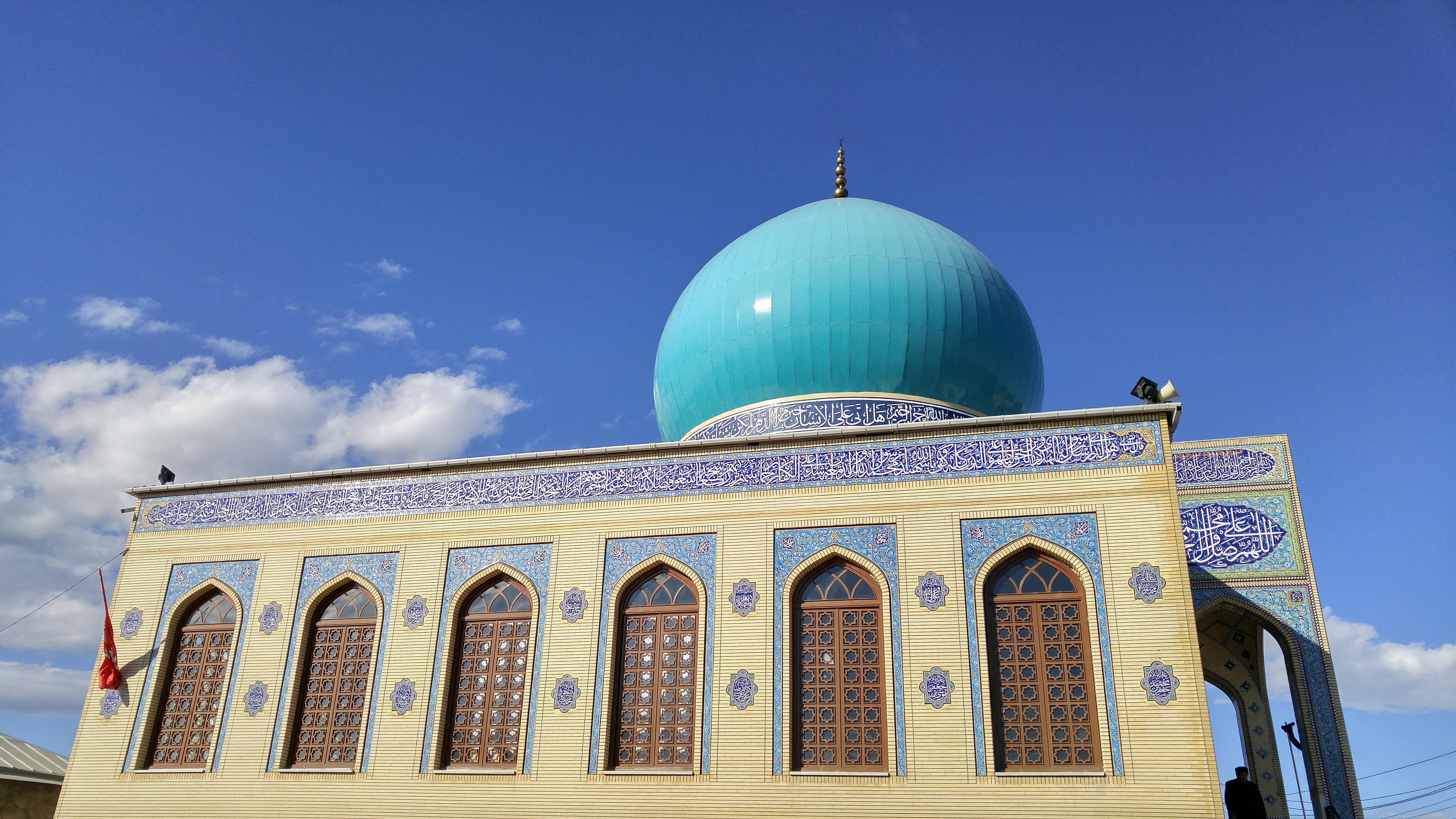 Marneuli is a small city in the Kvemo Kartli region of southern Georgia and administrative center of Marneuli District that borders neighboring Azerbaijan and Armenia.